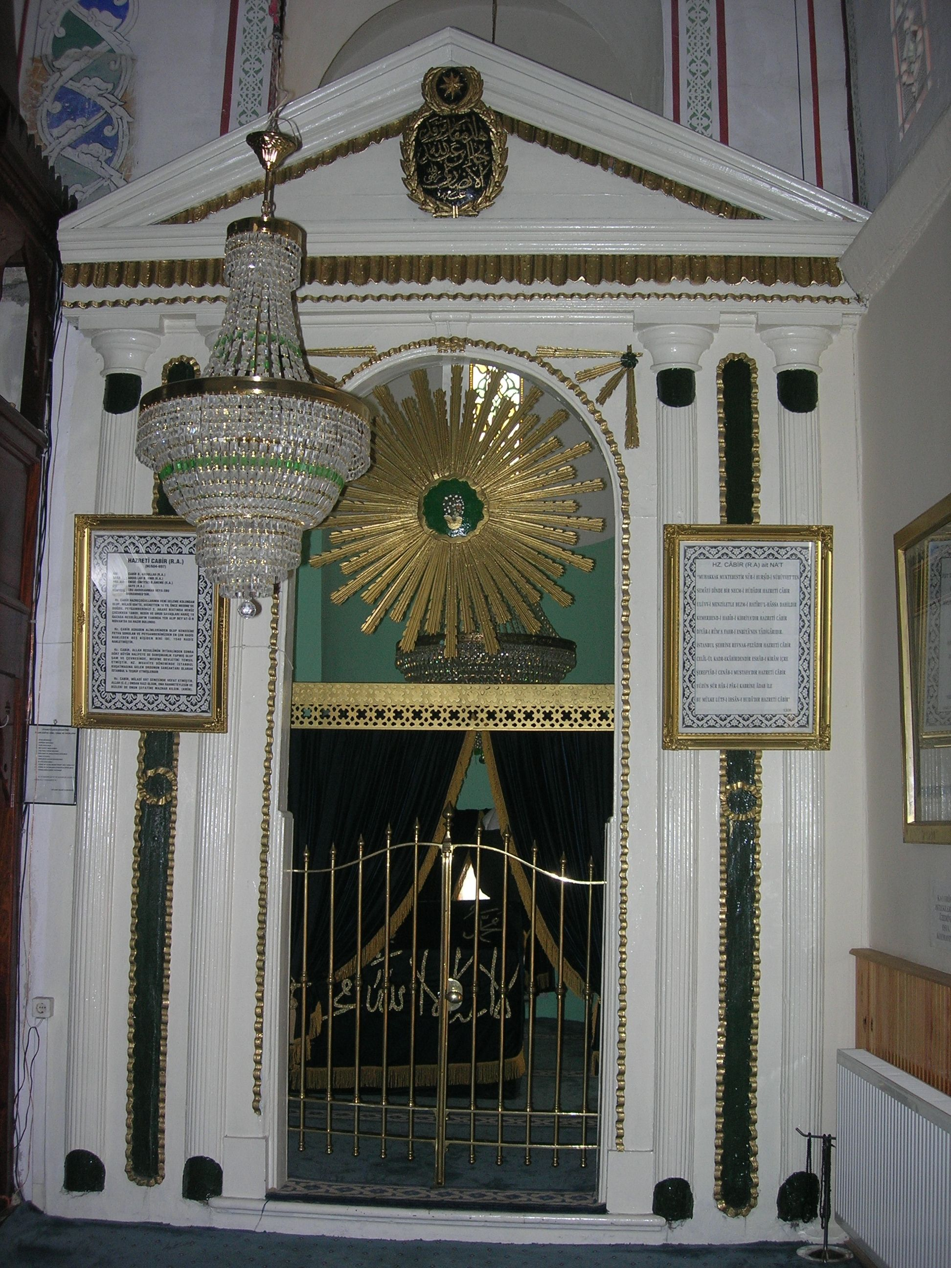 The tomb of Azreti Cabir in the former Church of Agia Thekla (today mosque of Atik Mustafa Pasha) in Istanbul